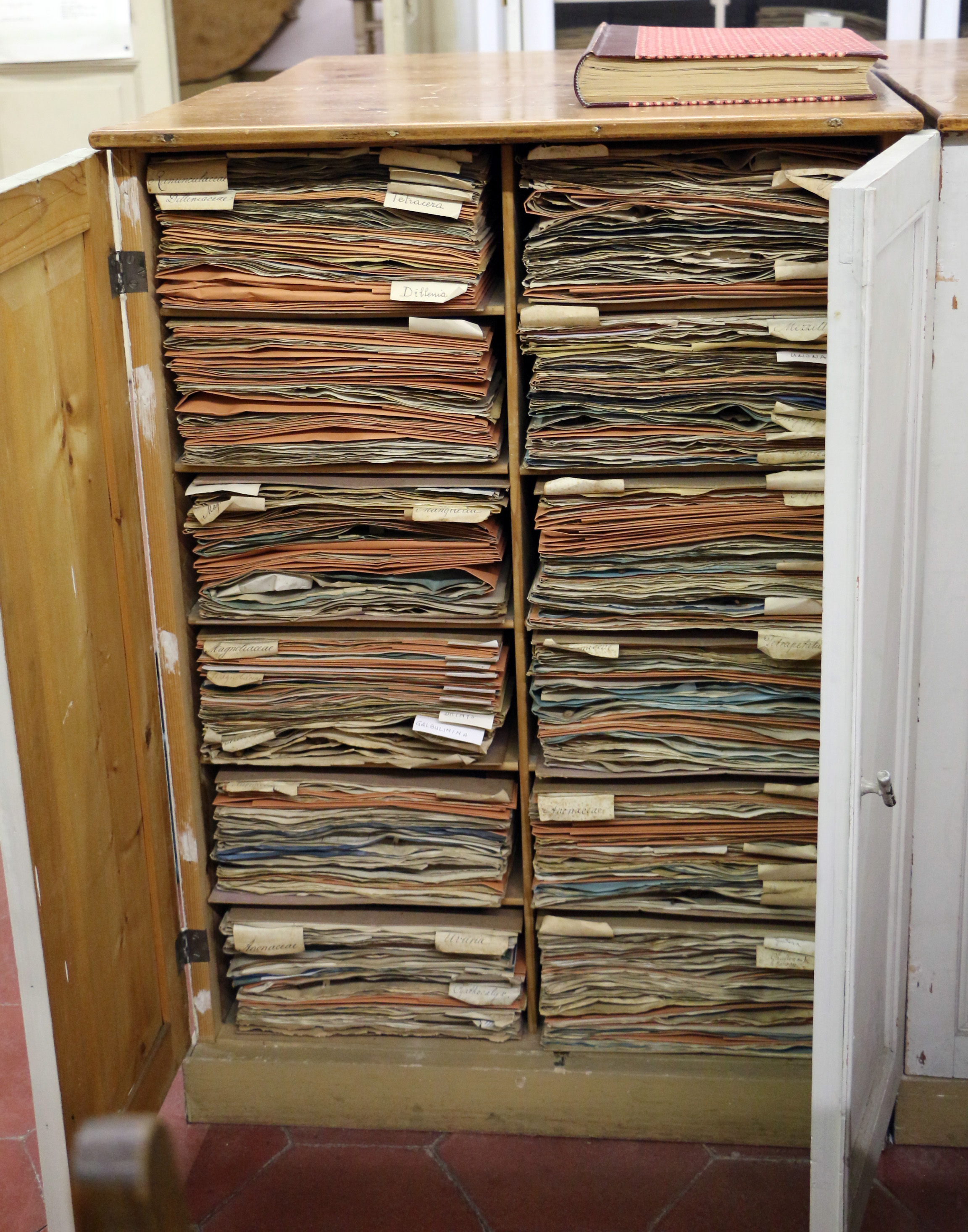 Museo di storia naturale (Florence) - Botany section